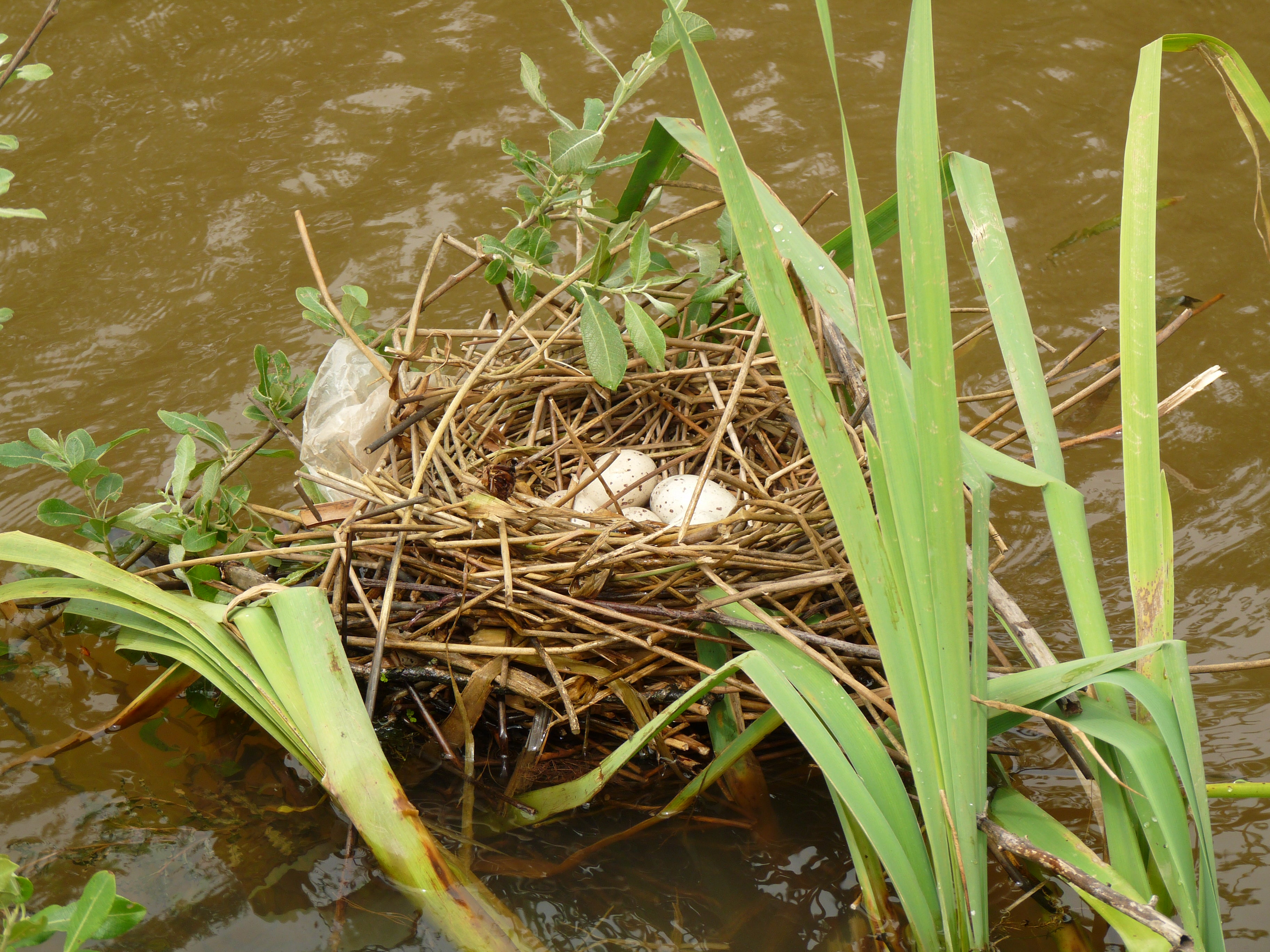 Latin name Gallinula chloropus Family Rails (Rallidae) Overview Moorhens are blackish with a red and yellow beak and long, green legs. Seen... Where to see them ... When to see them Any time of year, and any time of day. You might even hear them calling at night . What they eat Water plants, seeds, fruit, grasses, insects, snails, worms and small fish.